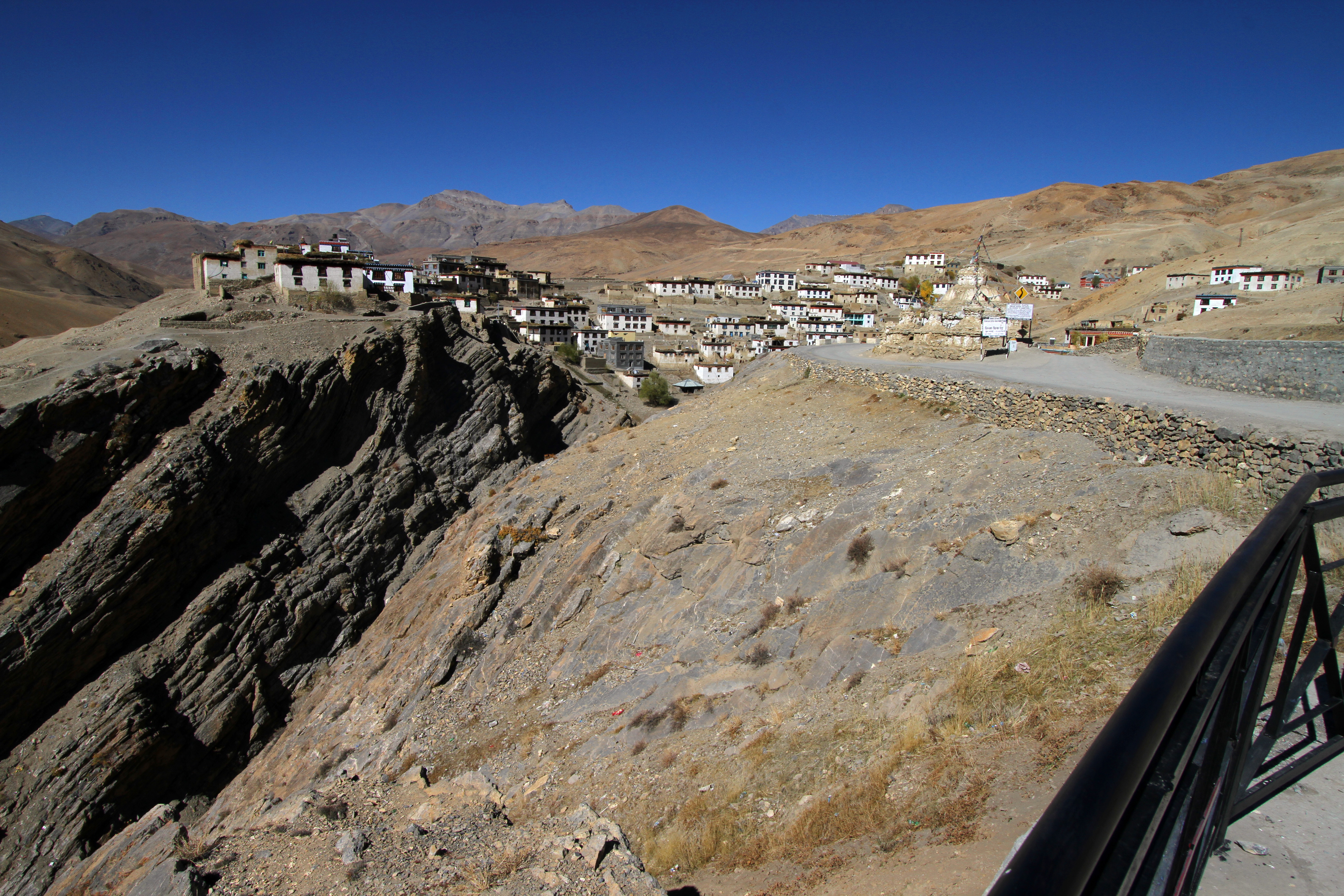 Kibber in Himachal Pradesh in India.